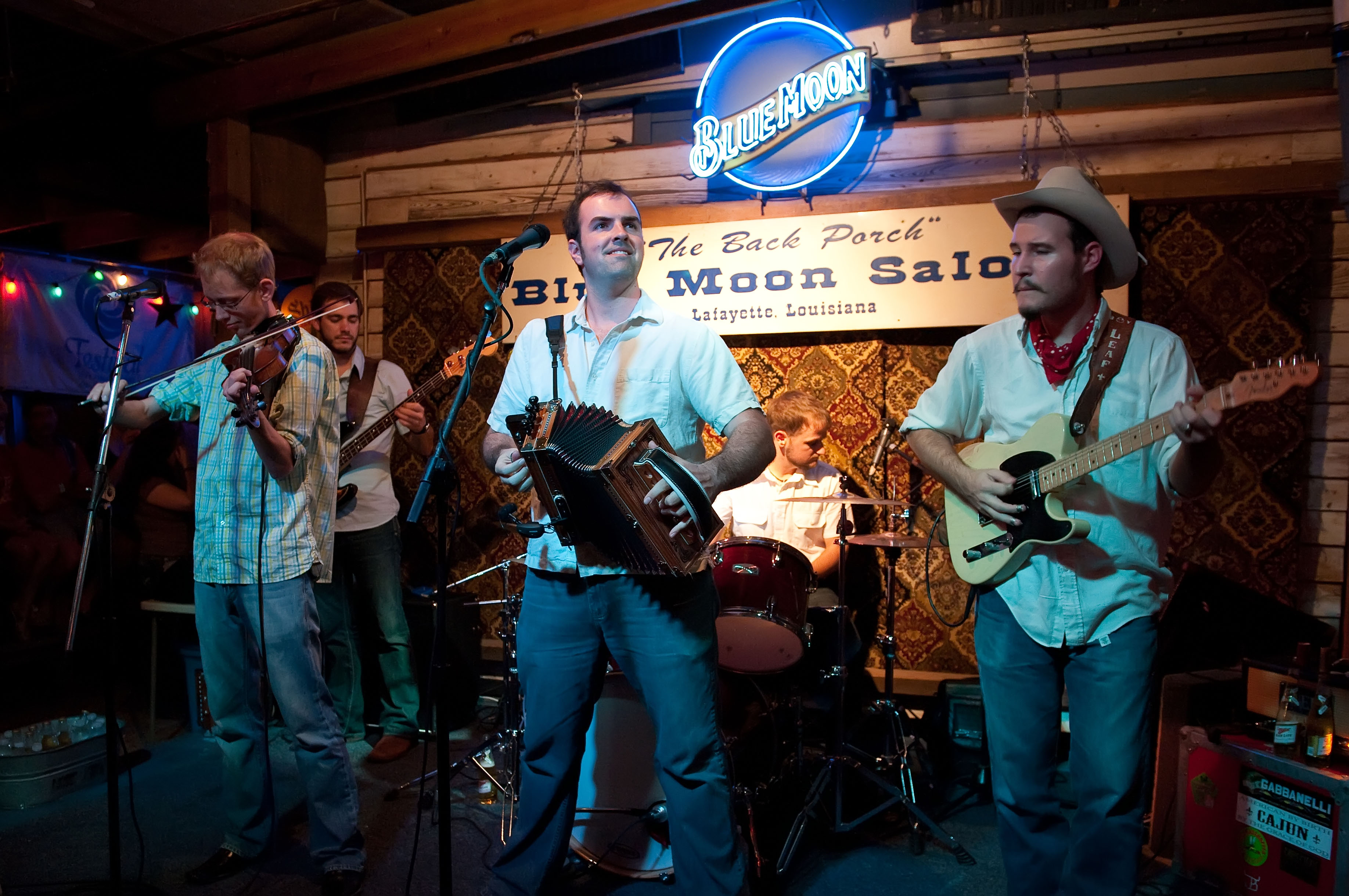 The Pine Leaf Boys playing at the Blue Moon Saloon in Lafayette, Louisiana. From left to right are Courtney Granger (fiddle, accordion, vocals), Thomas David (bass), Wilson Savoy (accordion, fiddle, vocals), Drew Simon (drums and vocals), and Jon Bertrand (guitars).